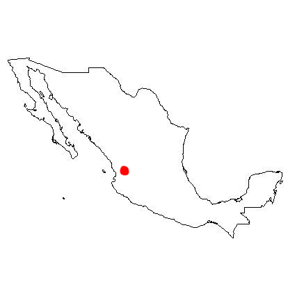 Aapproximation of the Territory of the cora people. Public domain outline of Mexico modified by uploader.